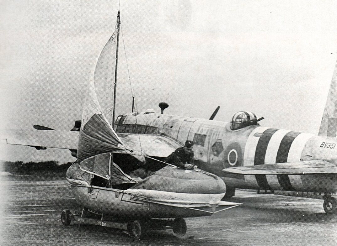 A rigged Airborne Lifeboat in front of the Vickers Warwick B.1, BV351, sometime after June 6th, 1944. Imperial War Museum? - picture scanned by me Ian Dunster 15:45, 25 January 2006 (UTC) from the Alas, Poor Warwick article in the October 1976 issue of Aeroplane Monthly and uncredited.